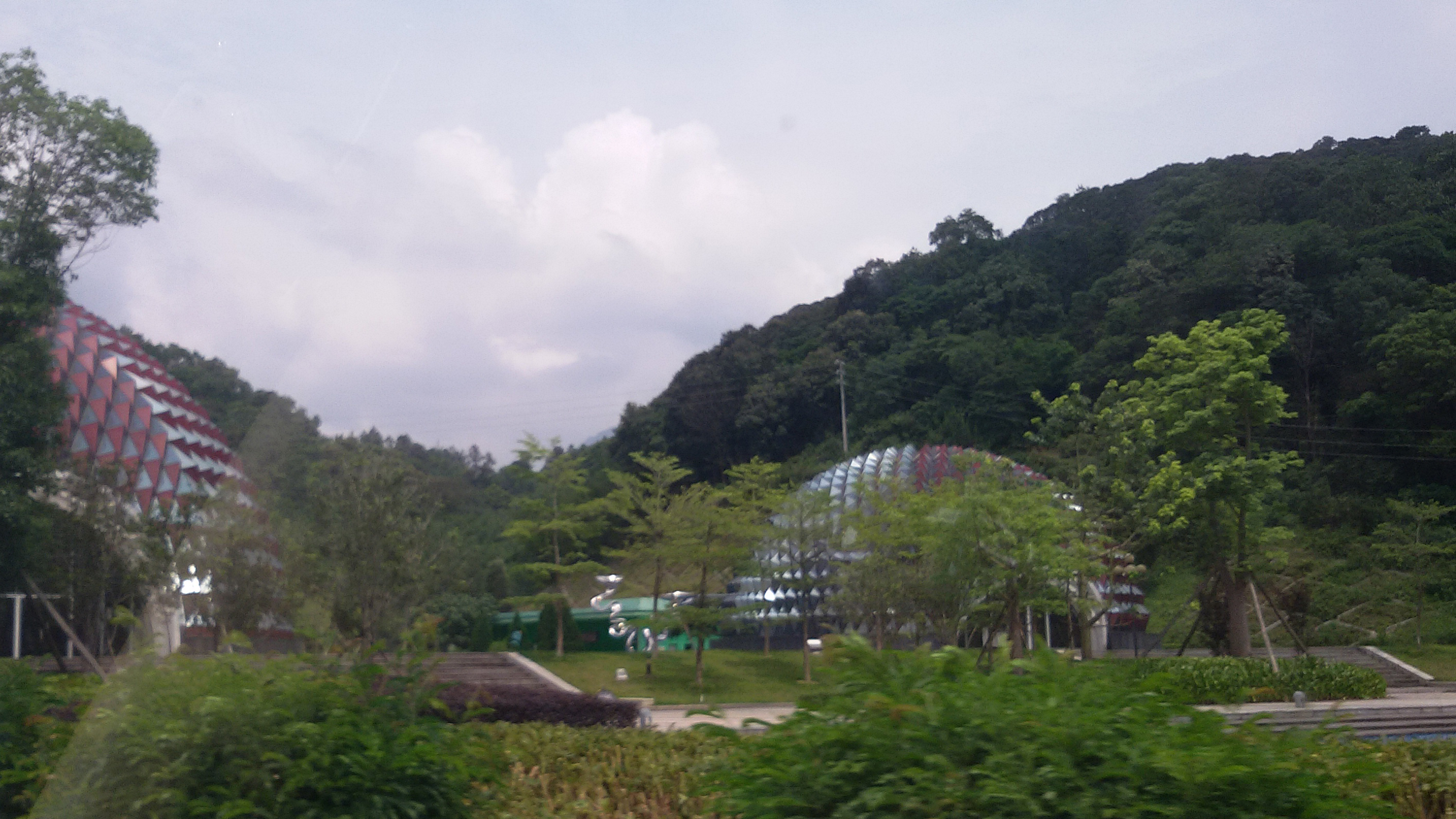 Guangzhou Equestrianism Ground